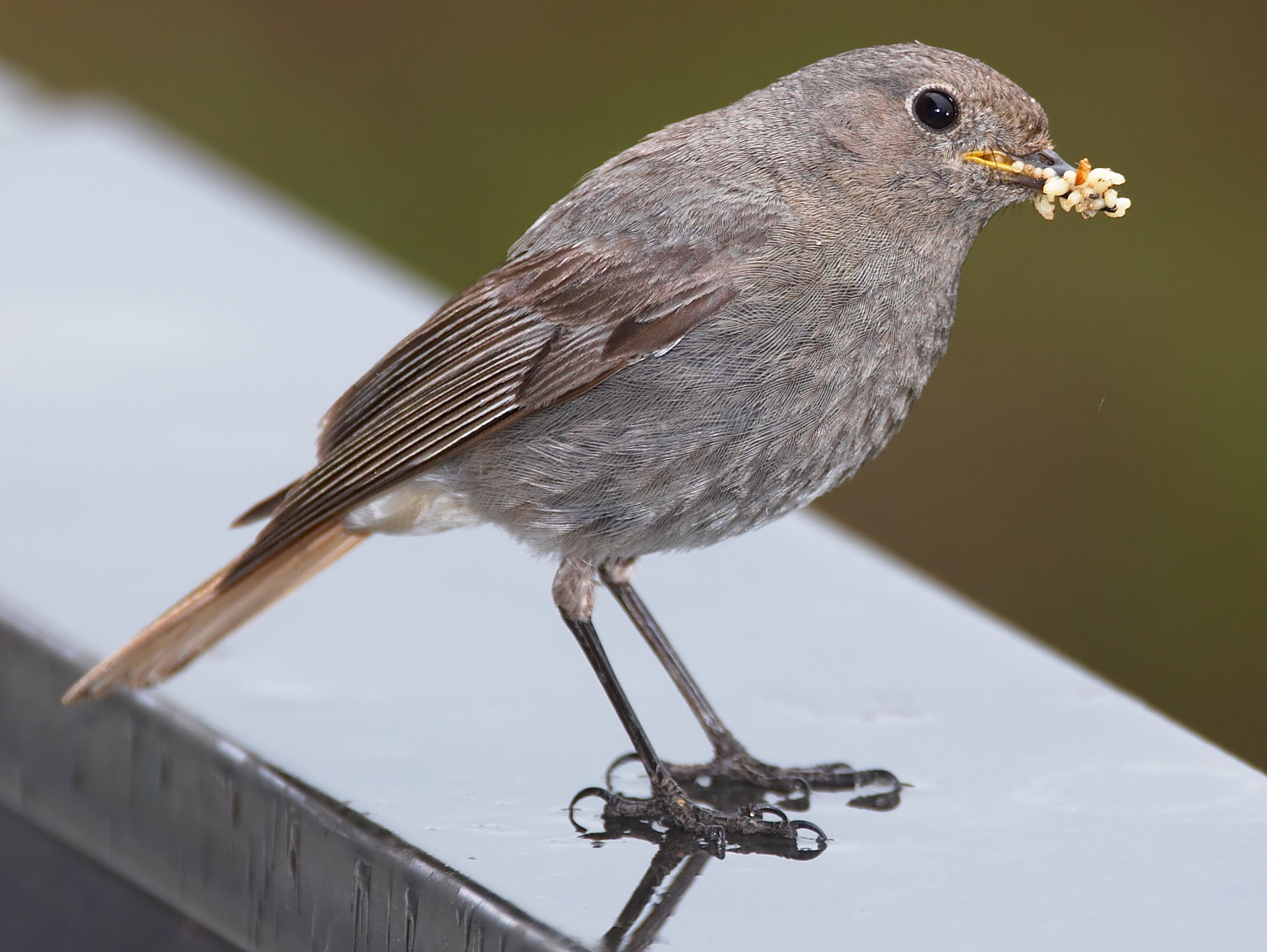 Female black redstart (Phoenicurus ochruros).